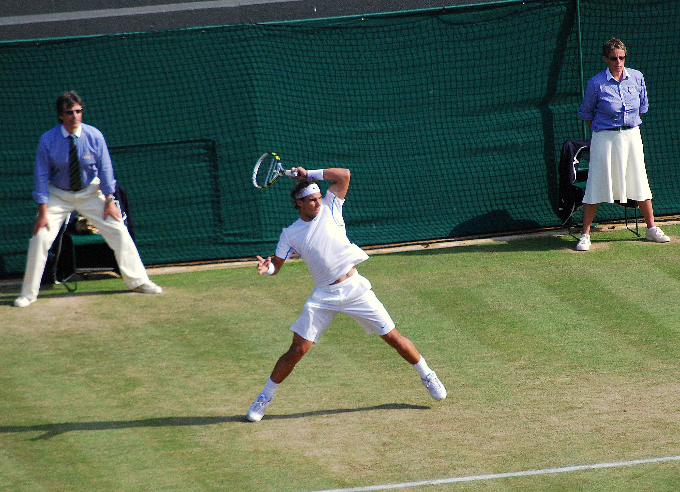 Rafael Nadal during his quarter-final with Mardy Fish. Nadal won 6-3, 6-3, 5-7, 6-4. Day 9 of Wimbledon 2011.